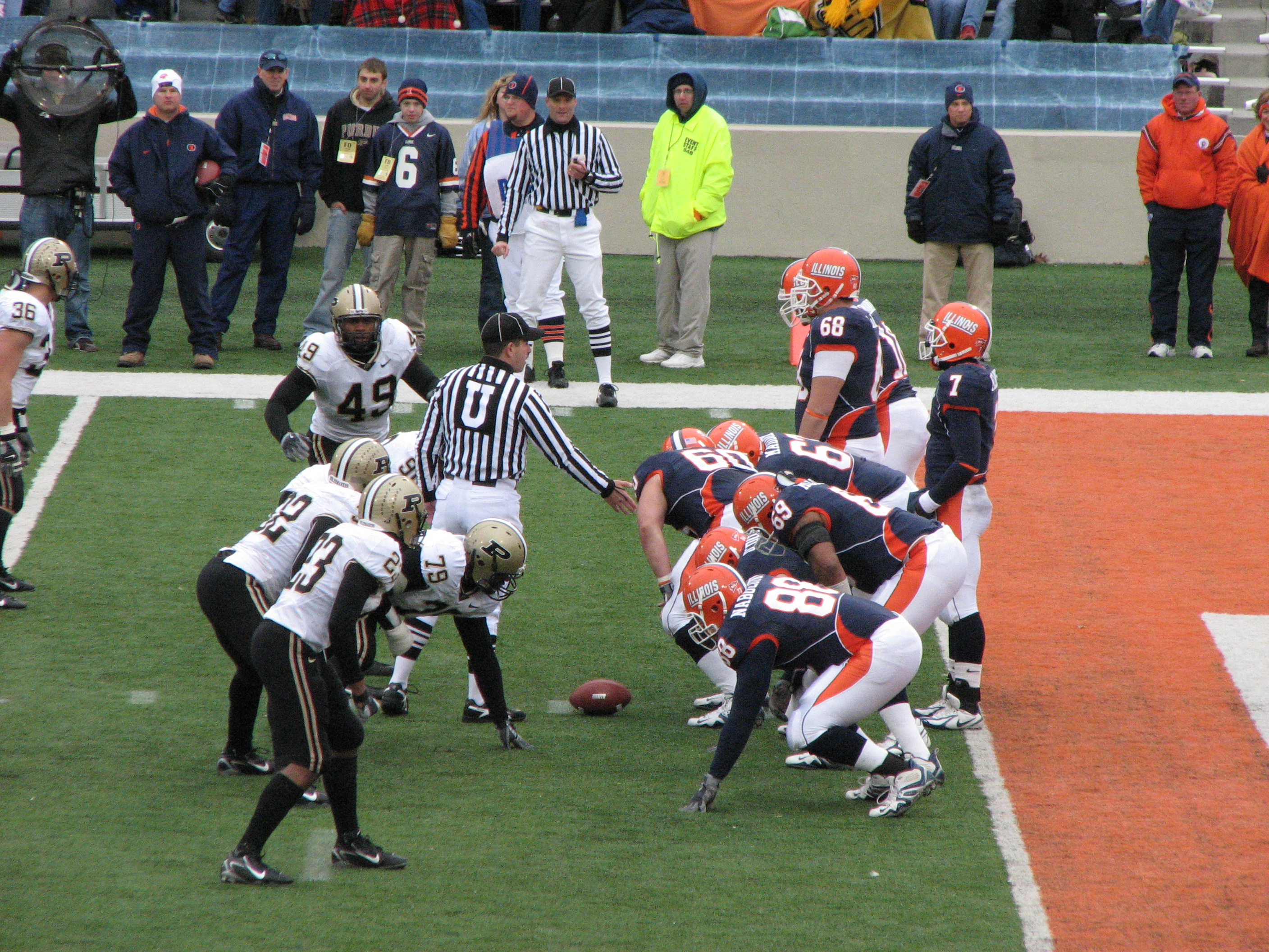 Illinois lines up, QB #7 Juice Williams against Purdue on November 11, 2006